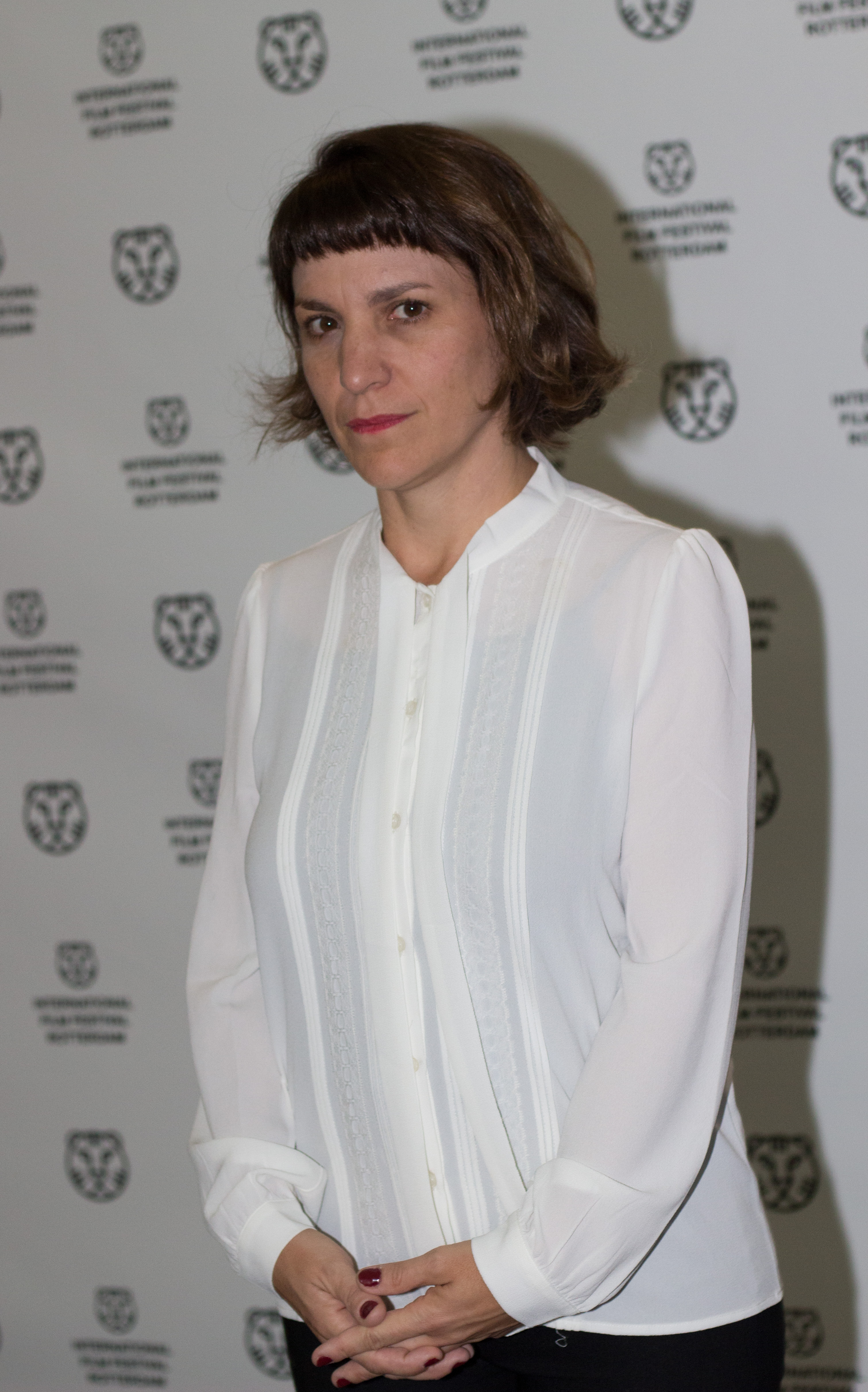 Laura Citarella at the IFFR 2020